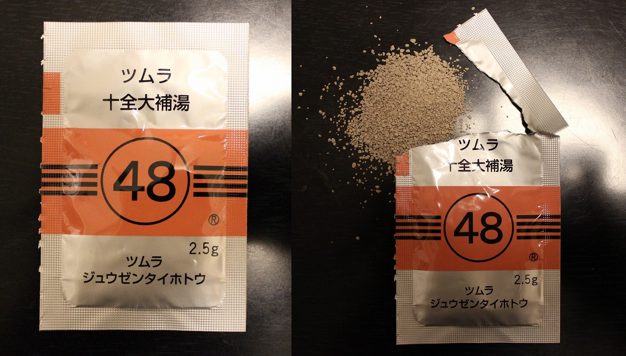 Traditional medicines of China. jyuuzendaihotou